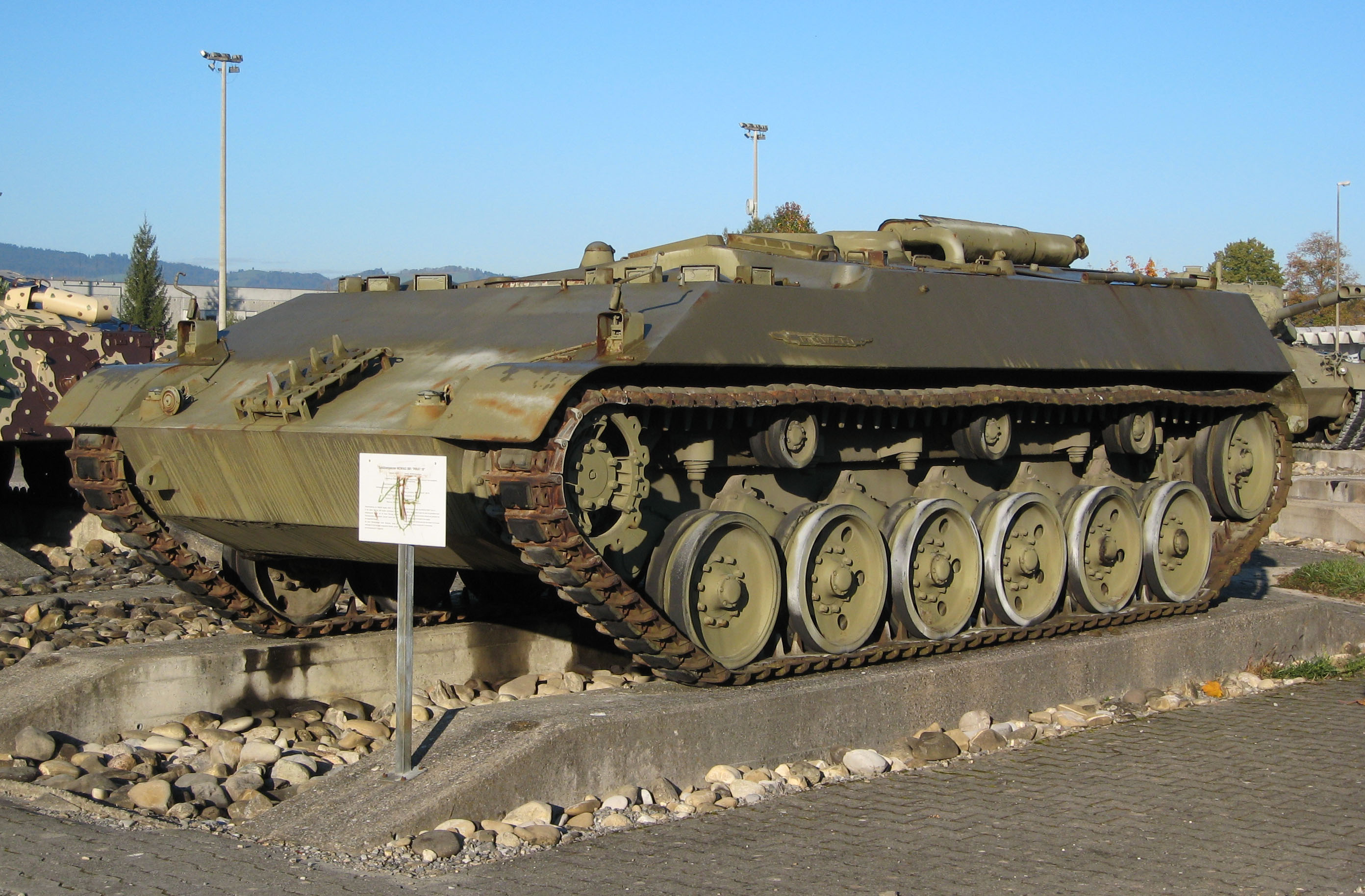 Swiss Army. APC Mowag 3M1 "Pirat 18" (a prototype, the model did not see service). Tank Museum Thun.